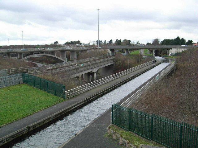 Royal Canal Aqueduct Aqueduct (on the Royal Canal) and railway viaduct (on the Dublin to Galway/Sligo line) at the M50/N3 junction at Castleknock, Co. Dublin.